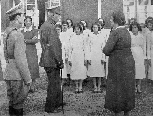 Reza Shah